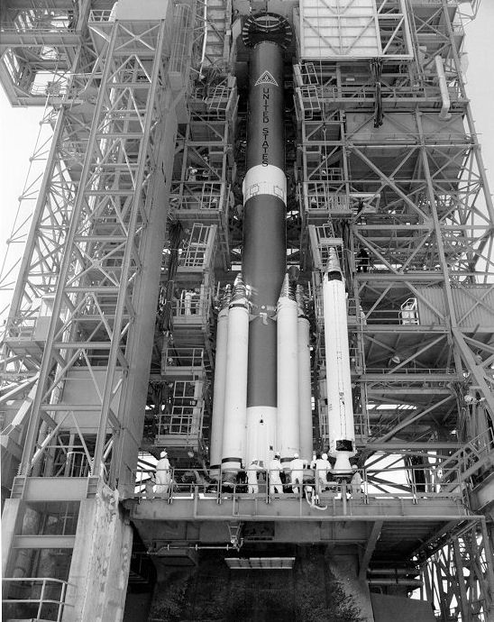 First Delta II at Pad 17A - November 1988